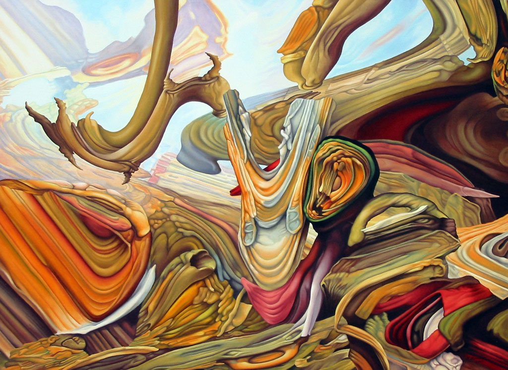 No Man's Land 3, oil painting by Bernard Dumaine, 2002 licensed under: Free Art License